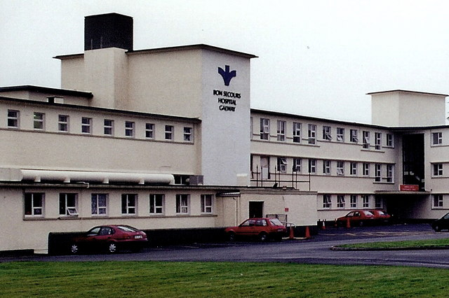 Galway - Bon Secours Hospital View to southeast from Renmore Road